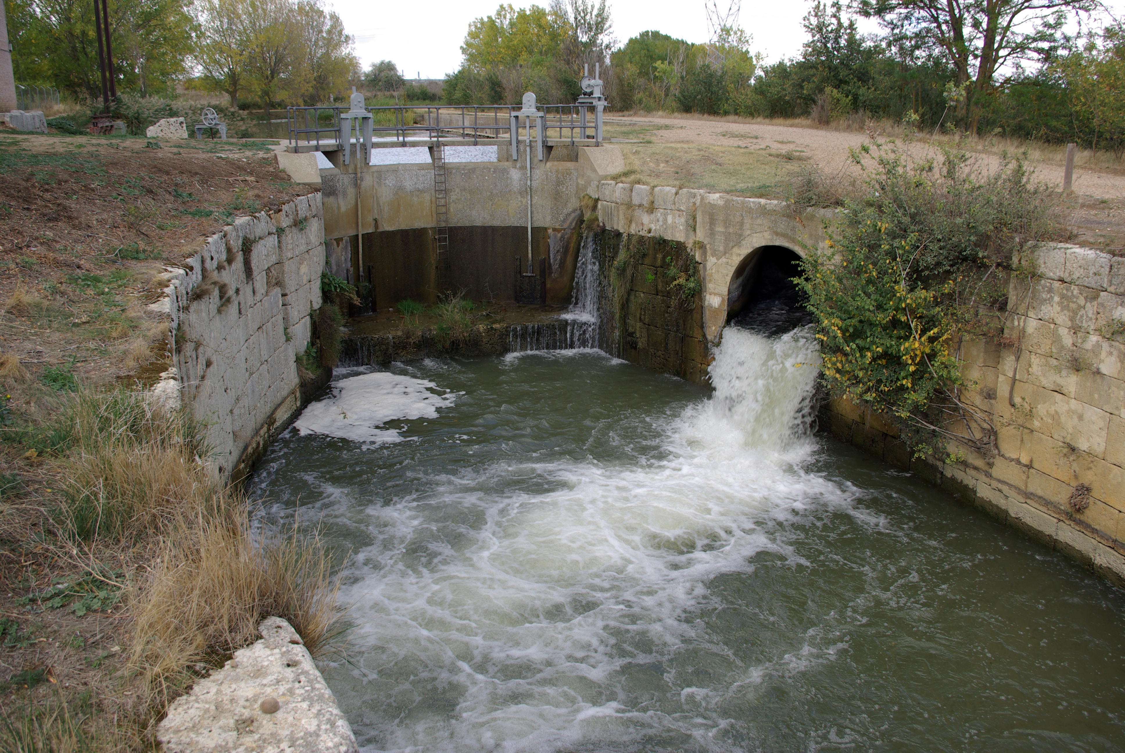 Floodgate number 30 of the Channel of Castile, Southern Branch, near Grijota (Palencia, Spain)